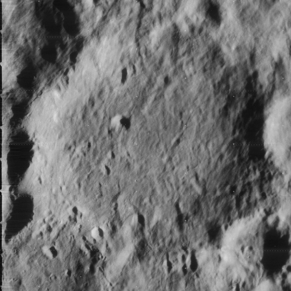 Street, on the moon.